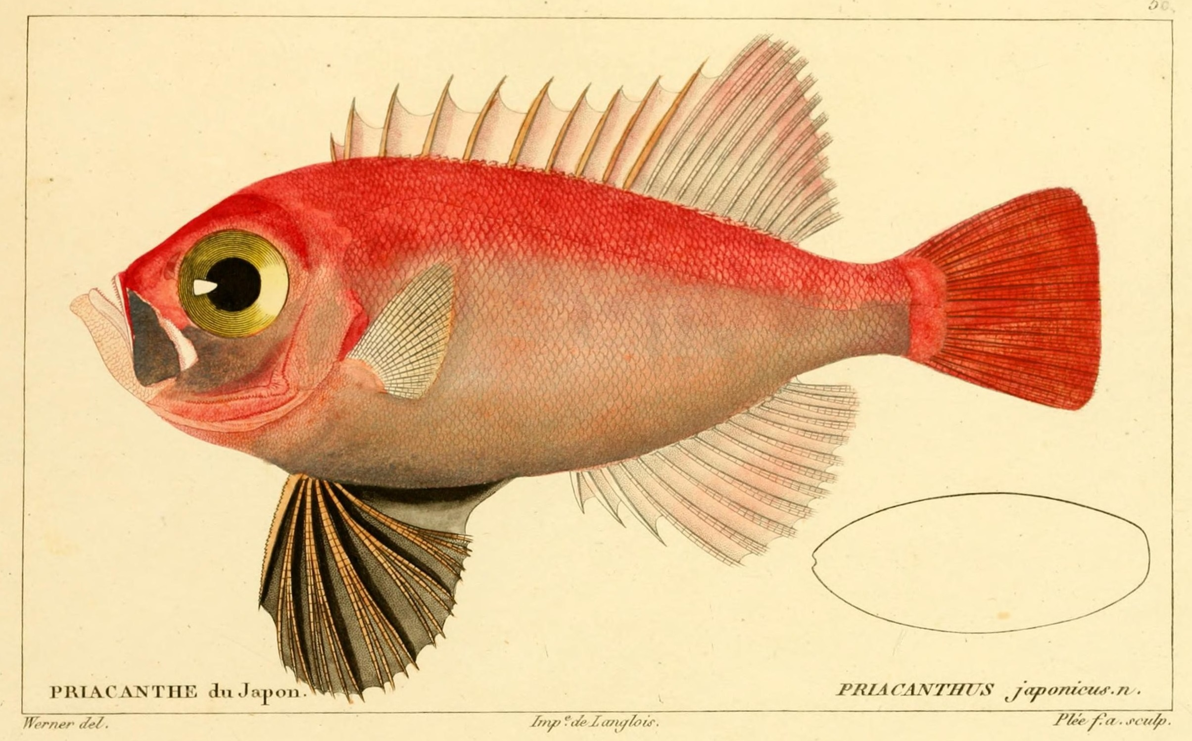 Cookeolus japonicus